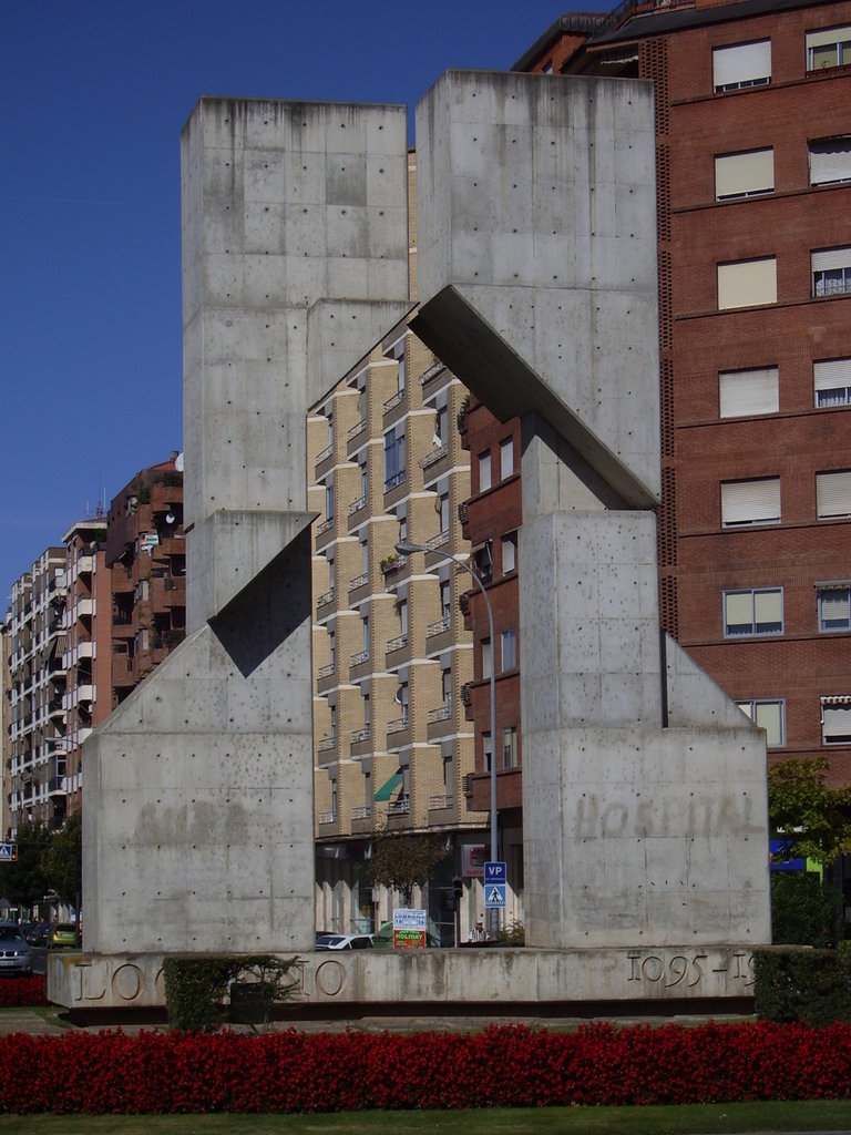 Monument to "El Fuero" in Logroño, remembering its 500th anniversary